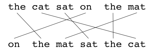 A sample alignment from the METEOR machine translation evaluation algorithm